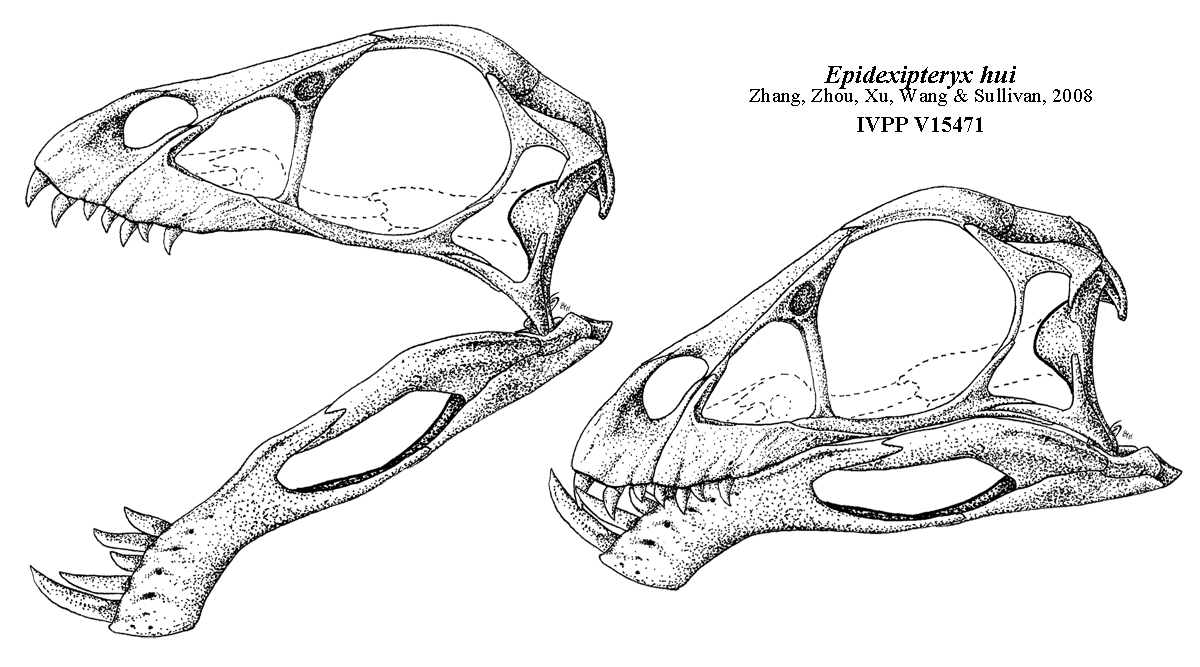 Skull reconstruction of Epidexipteryx hui.